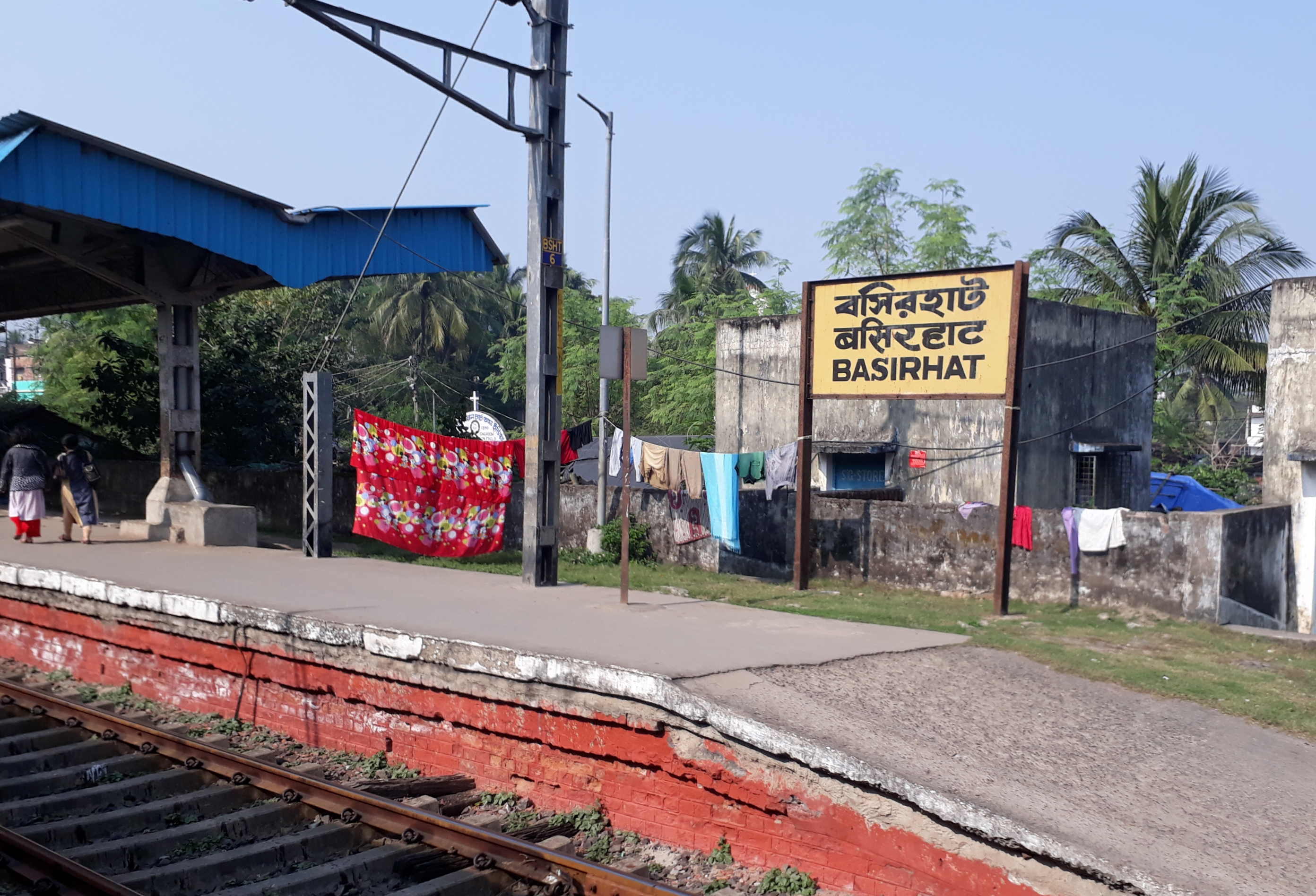 Basirhat Railway station in Barasat Hasanabad line, North 24 Pgns. West Bengal